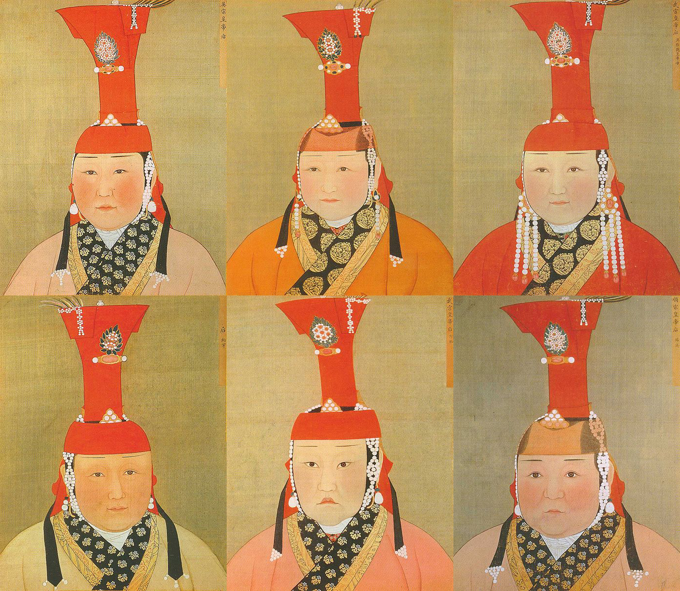 The Mongol Empresses of the Empire of the Great Khan.